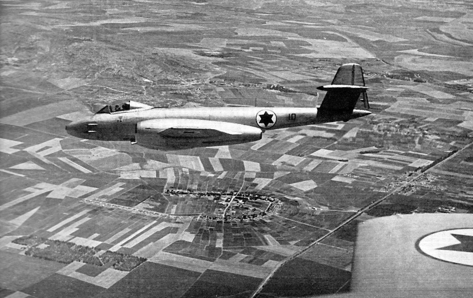 Original Description: ARMY AIR FORCE. CLOSE UP IN FLIGHT OF METEOR JET.